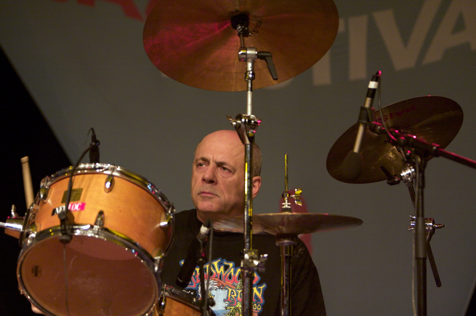 Joe Yuele, drummer with John Mayall and the Bluesbreakers at the Nice Jazz Festival 2008